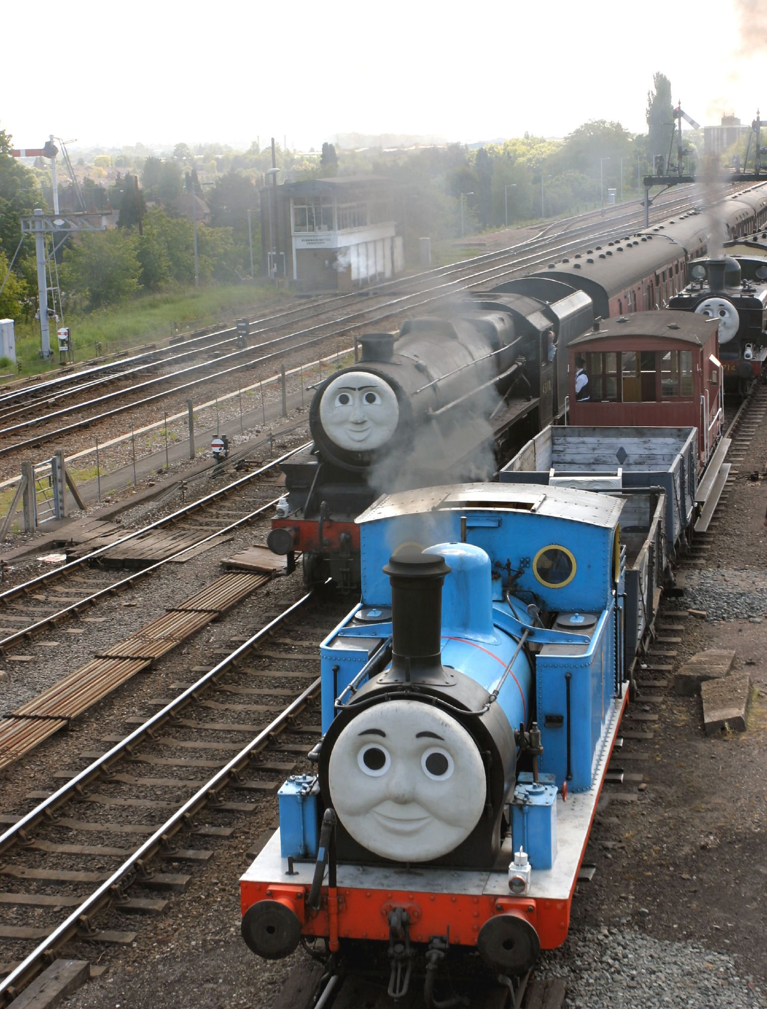 Thomas, Henry, Duke and troublesome trucks at KidderminsterIMG_8761